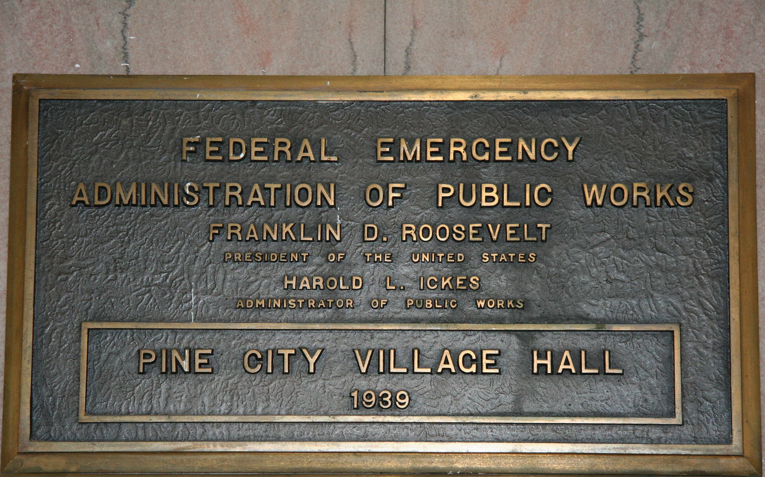 "Federal Emergency Administration of Public Works / Franklin D. Roosevelt / President of the United States / Harold L. Ickes / Administrator of Public Works / Pine City Village Hall / 1939" A plaque on an interior wall of the Pine City Village Hall, Pine County, Minnesota